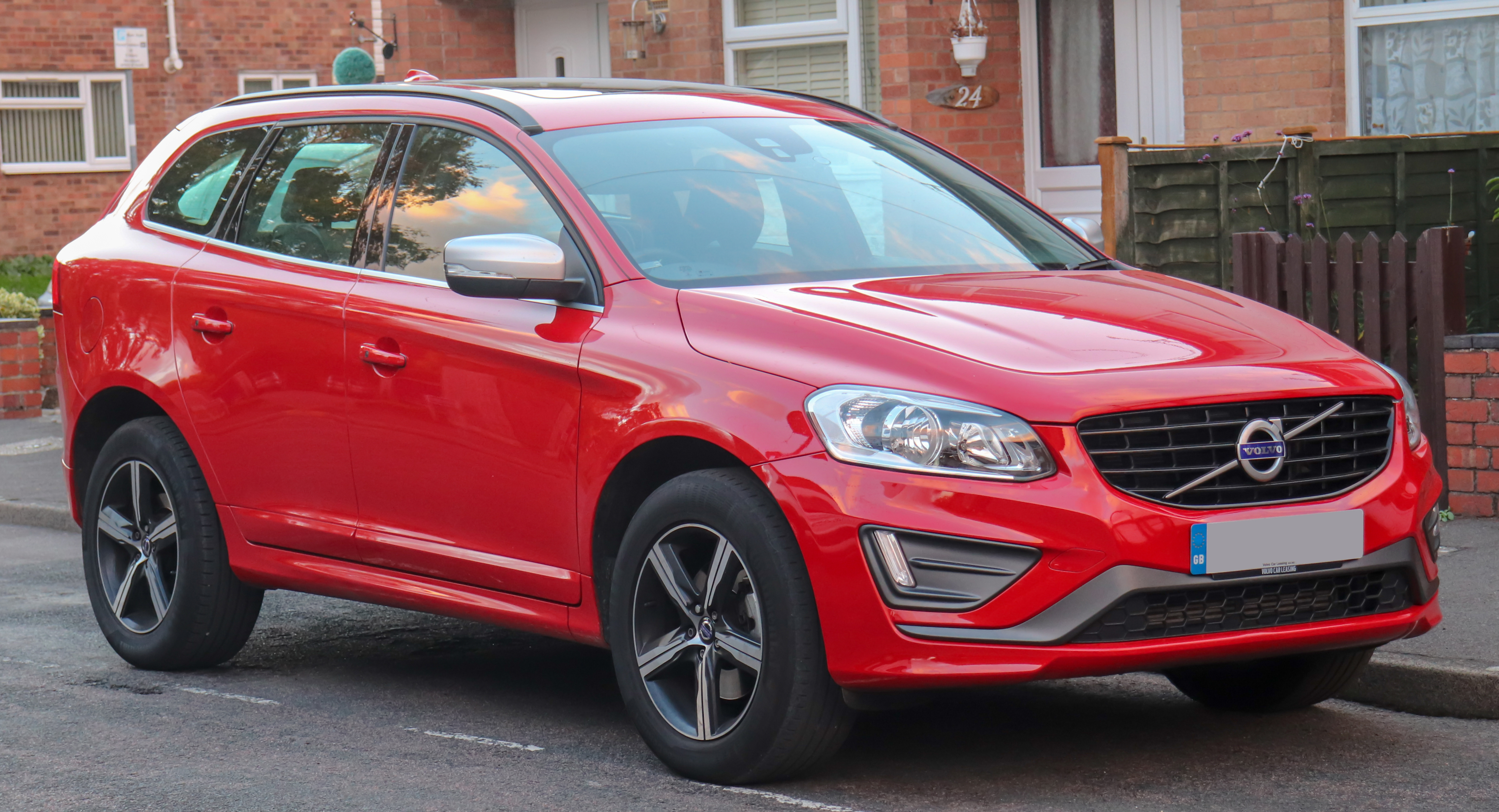 2017 Volvo XC60 R-Design NAV D4 Automatic 2.0 Front Taken in Warwick